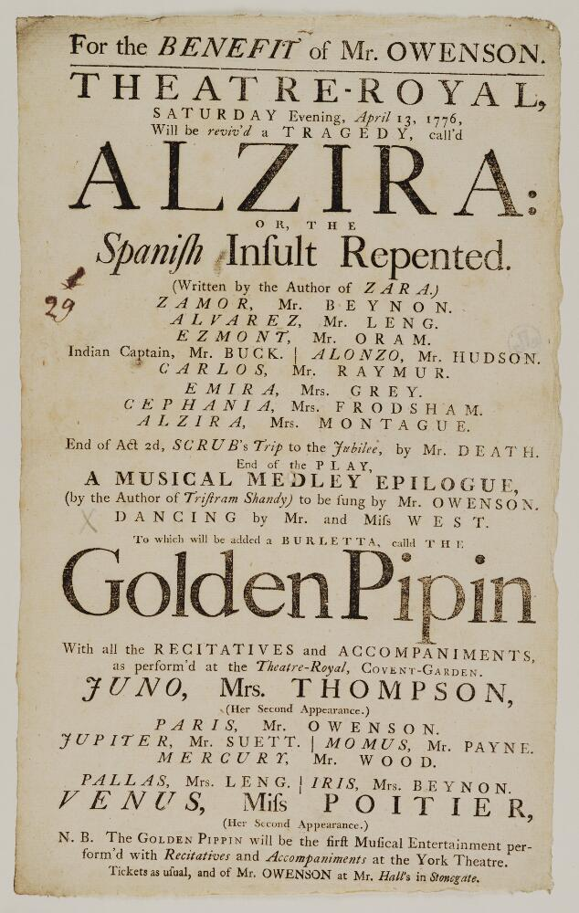 Playbill of Theatre Royal, Saturday evening, April 13, 1776, announcing Alzira: or, the Spanish insult repented &c. for the benefit of Mr. Owenson; 29; Alzira: or, the Spanish insult repented; Scrub's trip to the jubilee; Musical medley epilogue; Dancing; Golden pipin; [Playbill of Theatre Royal, Saturday evening, April 13, 1776, announcing Alzira: or, the Spanish insult repented &c.]